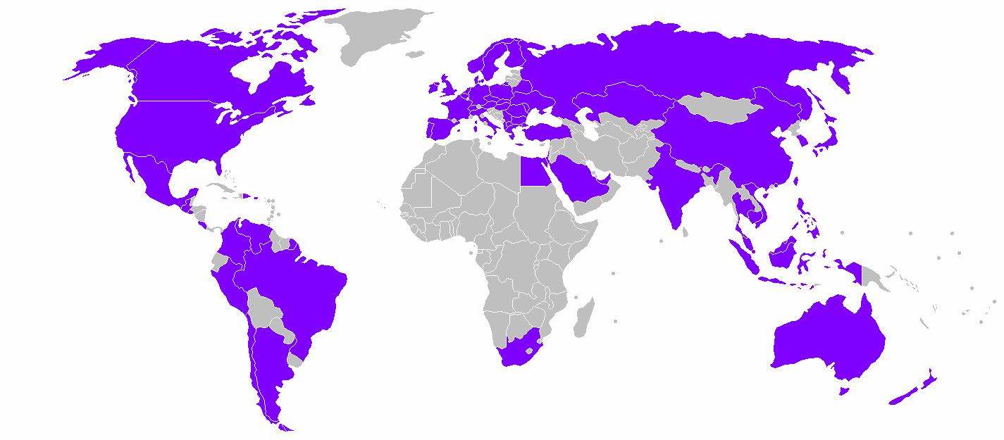 Alcatel-Lucent global locations